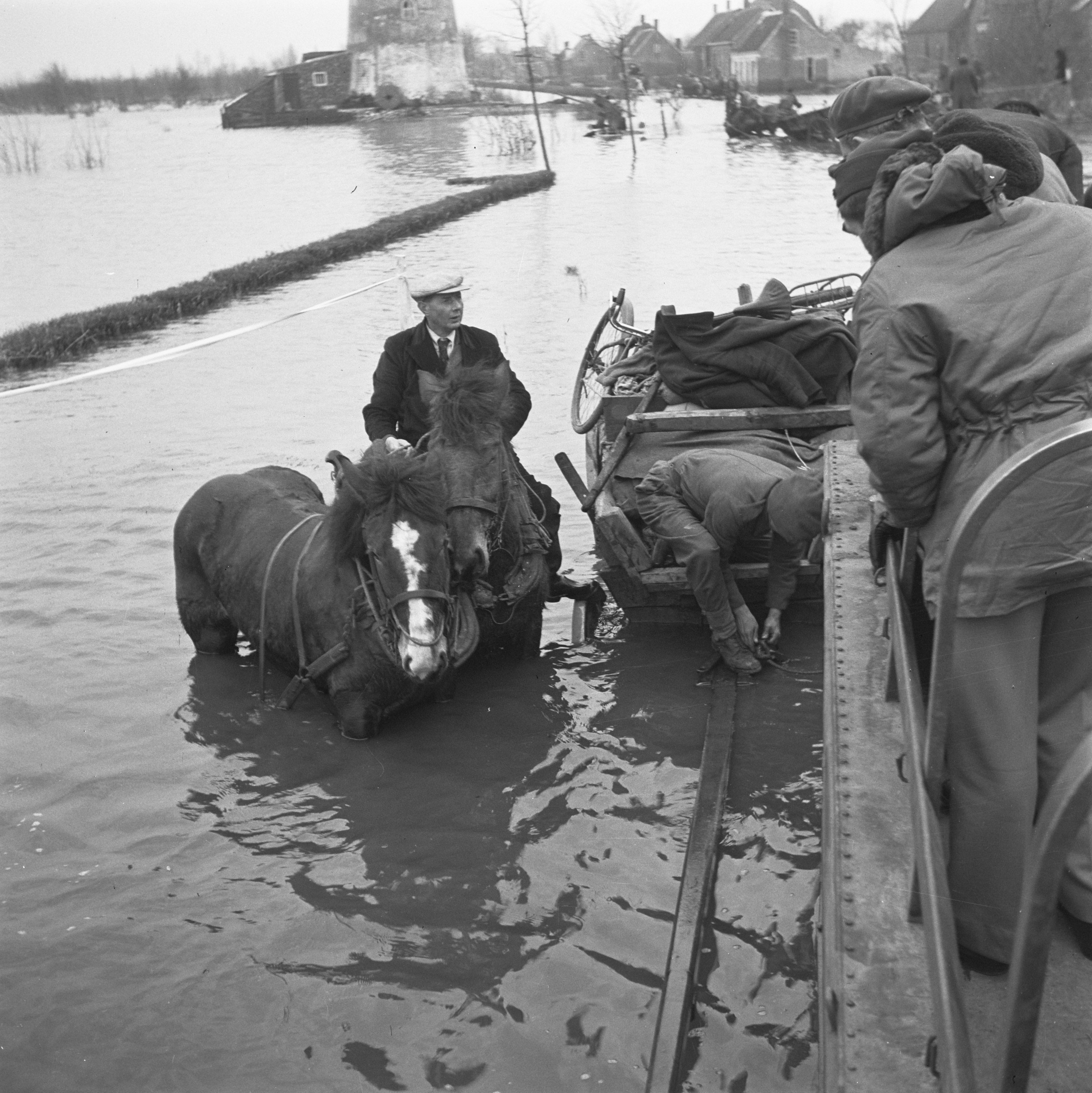 Visit by the Brittish minister Britse minister Attlee of Walcheren. The minister was using a DUKW (amfibievoertuig)